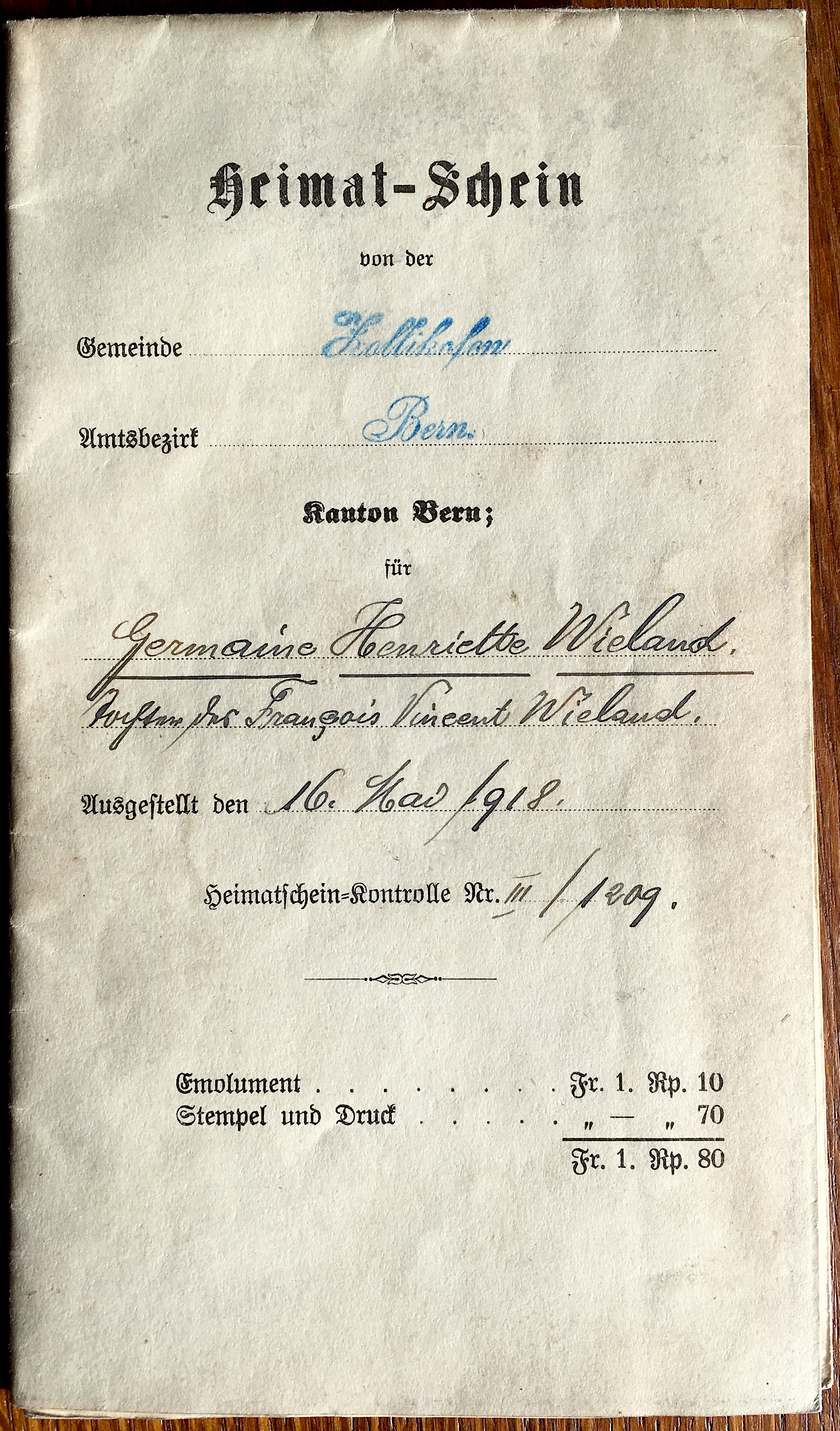 Switzerland Zollikofen 1918 front of a Heimat-schein - place of origin certificate. In Switzerland, the place of origin (German: Heimatort or Bürgerort, literally "home place" or "citizen place"